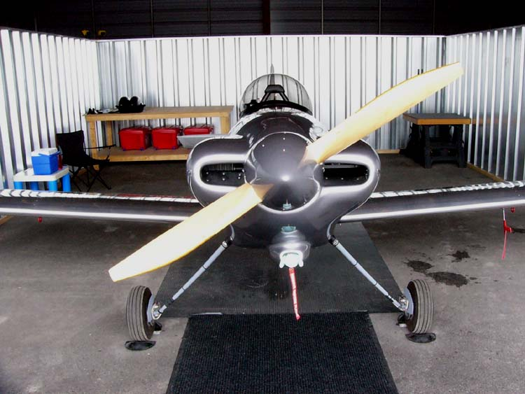 I took this photo at Carp Airport on 11 June 2006